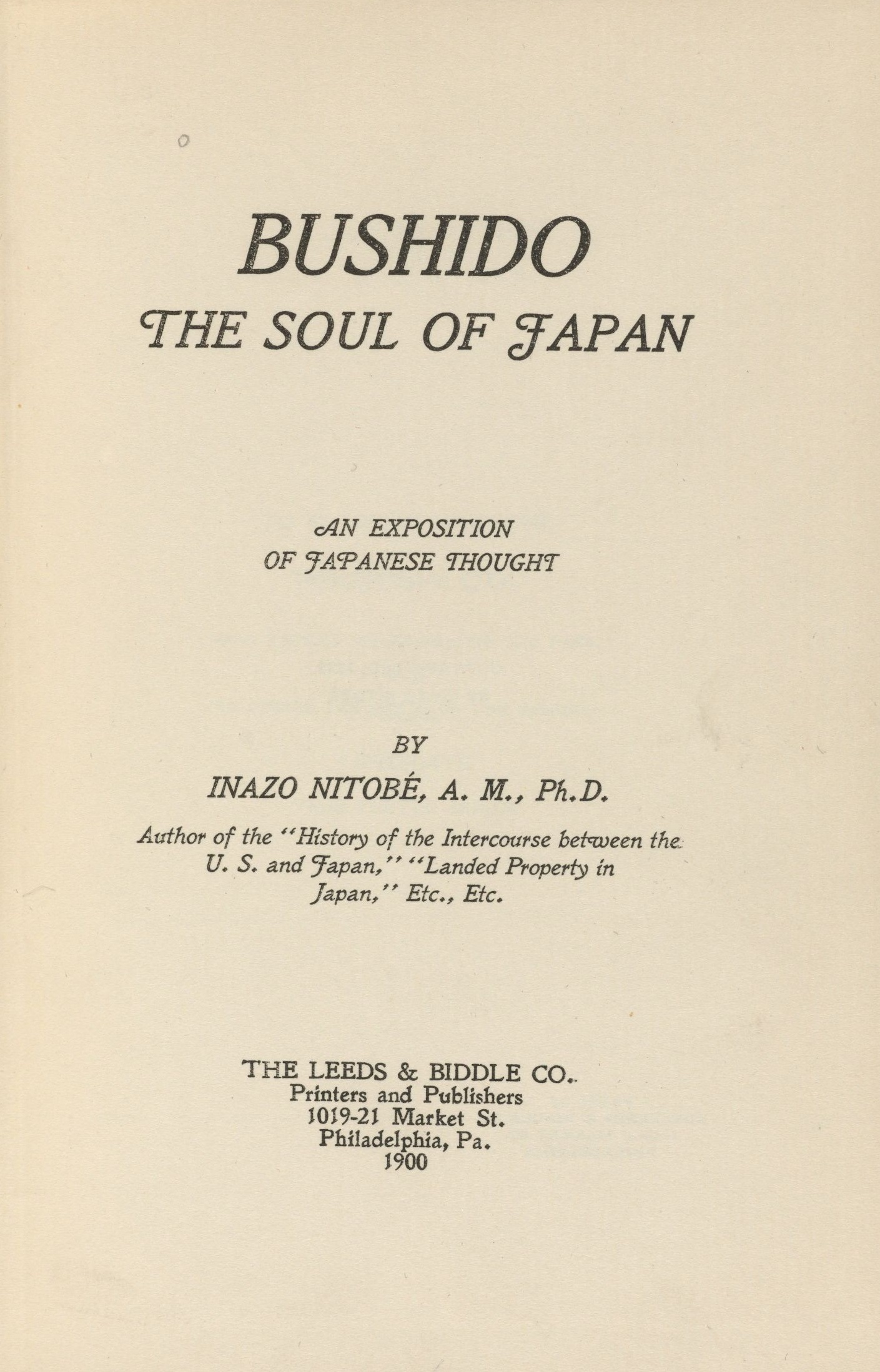 Title page of Bushido: The Soul of Japan (Philadelphia: Leeds & Biddle, 1900) by Inazō Nitobe (1862-1933). English language version. Hearn 92.40.10, Houghton Library, Harvard University